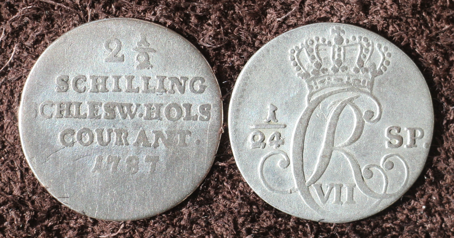 In 1788, a new currency was introduced in the Dutchies of Schleswig and Holstein, those days ruled by the king of Denmark, Christian VII. The 2 1/2 Schillinge coin was the smallest commodity money coin in that system. It contained the same amount of silver as 1/48 Speciestaler of which 9,25 were struck from a Cologne Mark of silver.